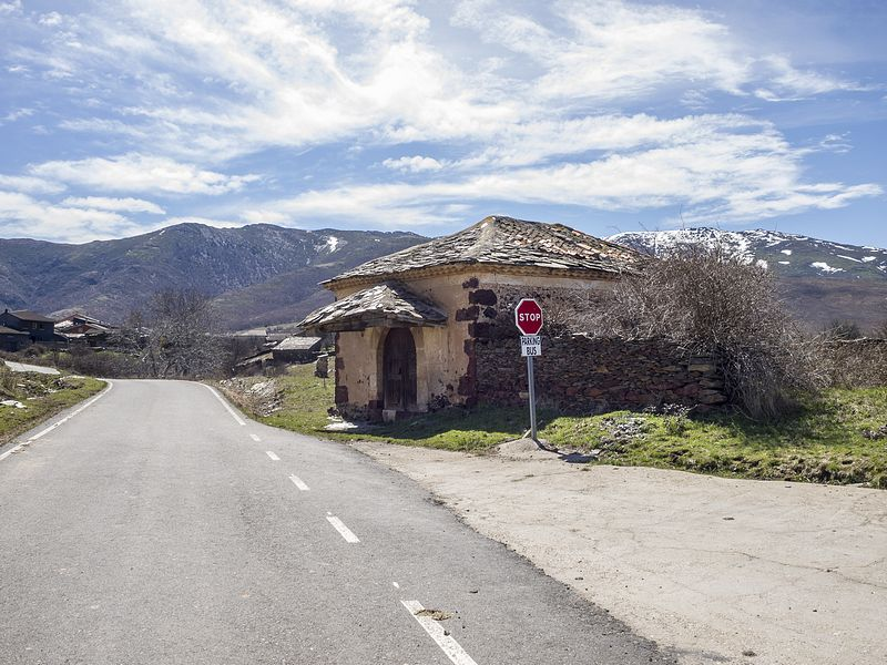 Entrada a Becerril, pueblo negro de pizarra.